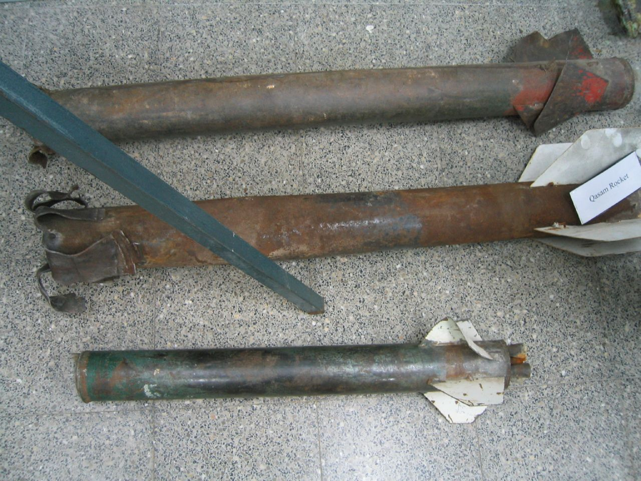 Remnants of several Qassam rockets